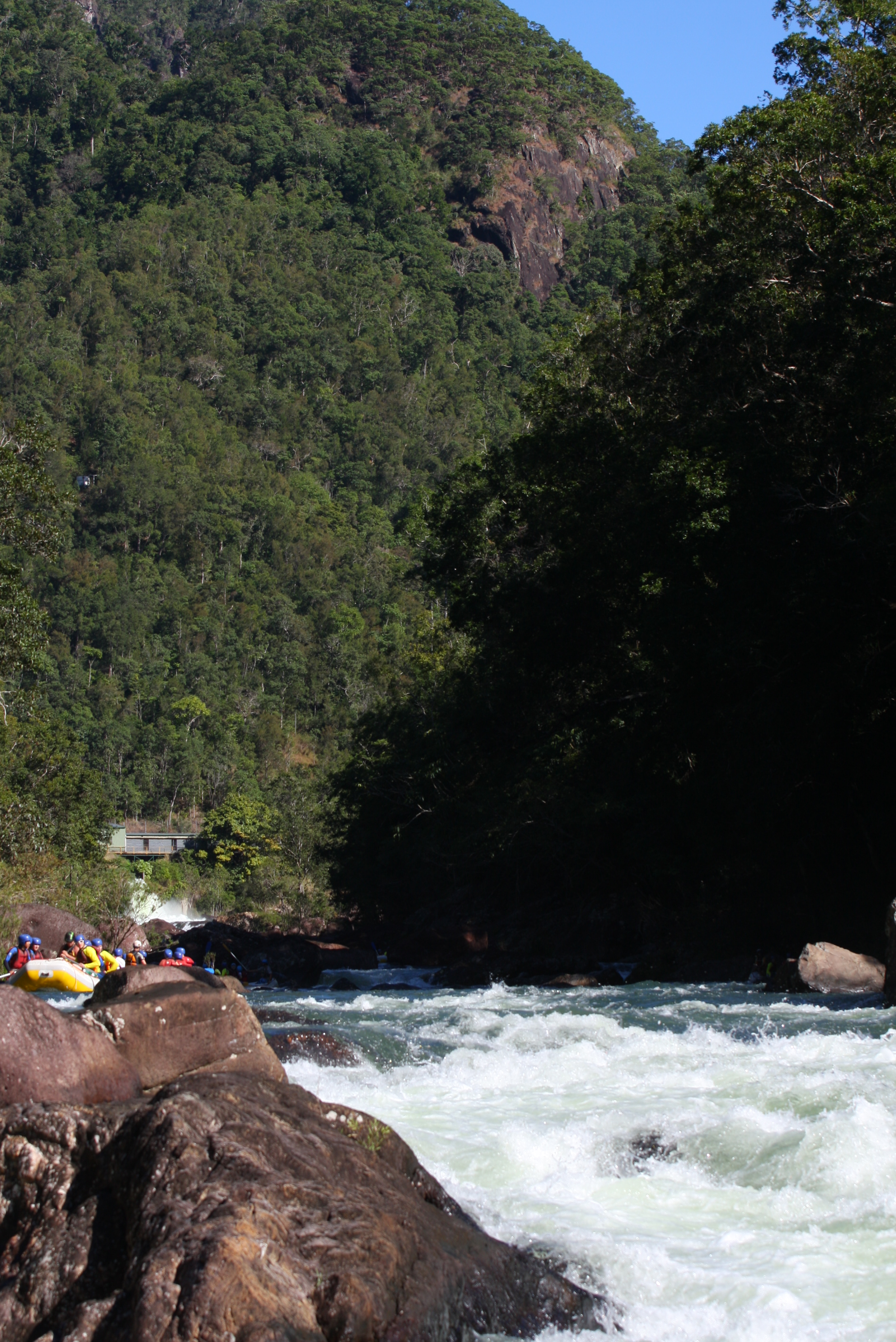 View of the Tully River, Queensland, Australia